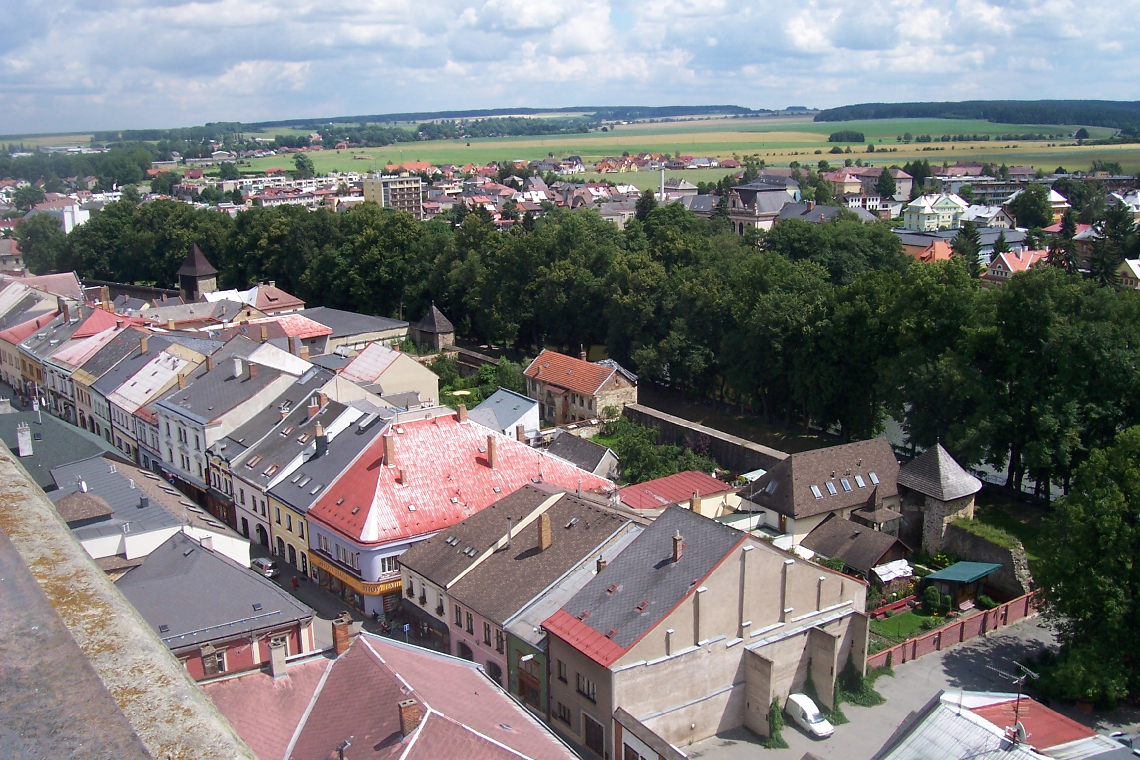 Polička, Svitavy District, Czech Republic.